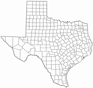 Map of Texas's county with a dot representing Texas City, Texas